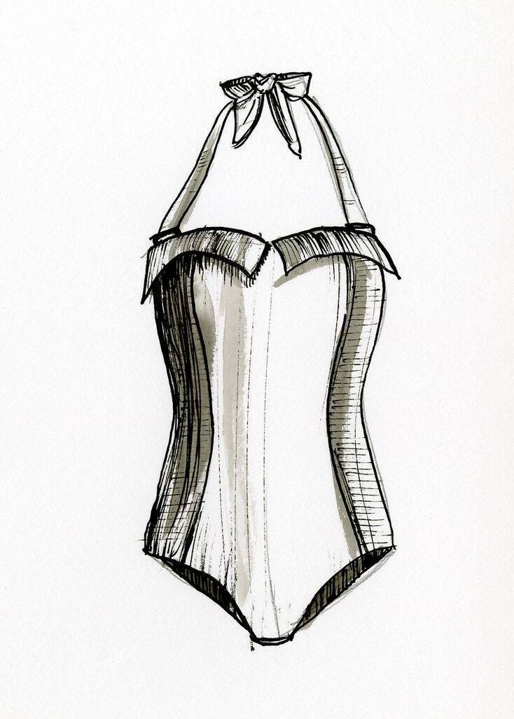 The description of the concept in this drawing is: Garments worn for bathing or swimming. (AAT)